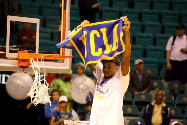 Norman Powell holding banner after the UCLA Bruins win the 2014 Pacific-12 Conference Men's Basketball Tournament